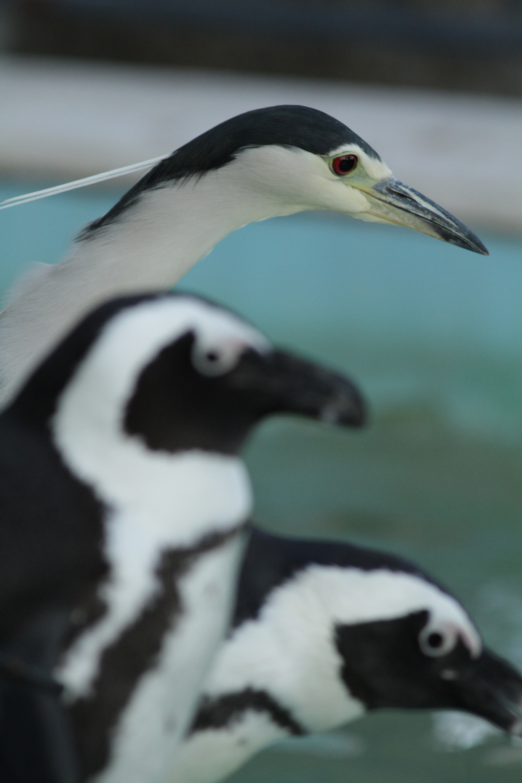 The bird is very good at pretending LOL この鳥さんペンギンのマネうますぎです！ Canon EOS 7D + Canon EF 400mm F5.6L USM